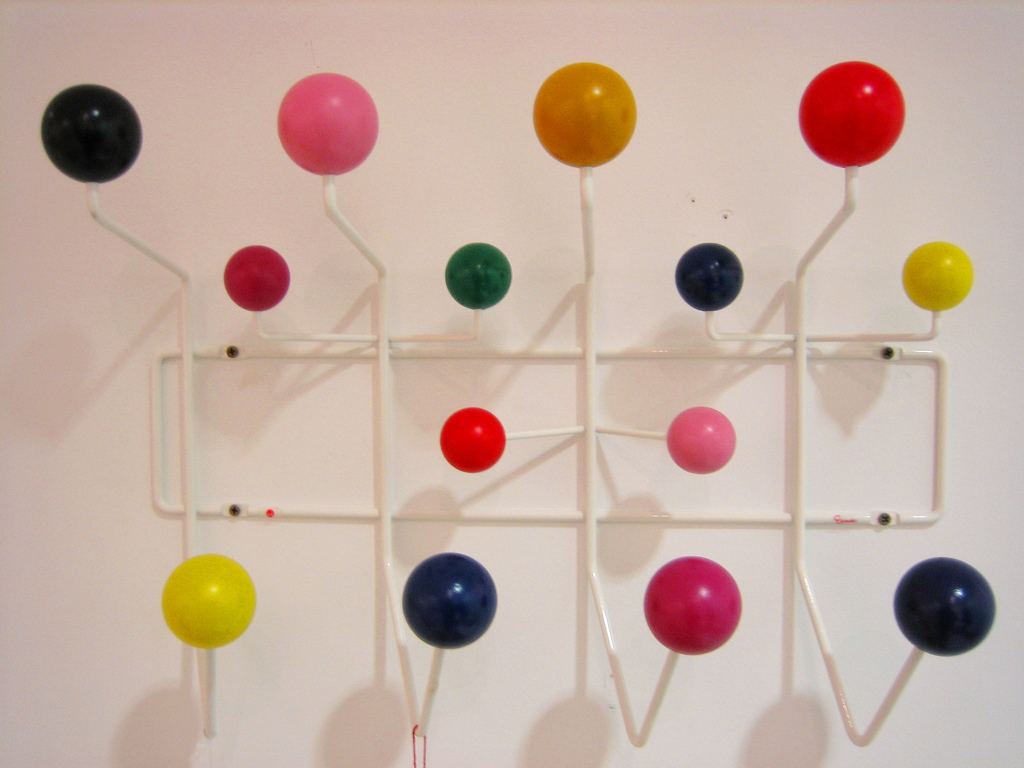 Hang It All portemanteaux designed by Charles Eames and Ray Eames in 1953 for Herman Miller.